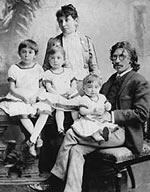 New Year card with photo of Shalom Aleichem with his family.